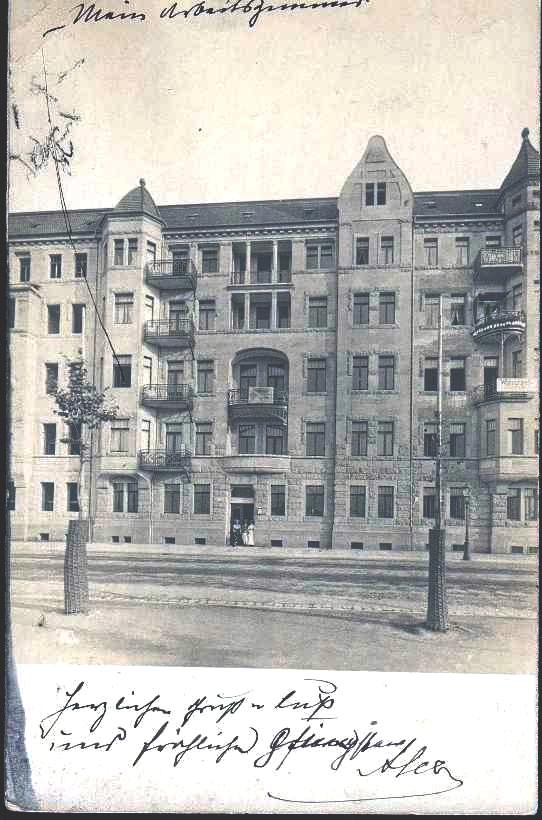 Dresden after 1904 - House Johannstadt shore 16 - Adoption